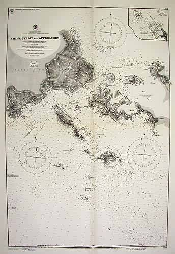 World War II US Navy map of the China Strait, Papua New Guinea.